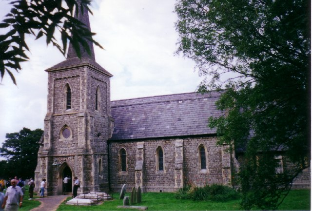 Parish church of St Mary the Virgin, St Thomas and All Saints, Churchend, Foulness, Essex, seen from the south